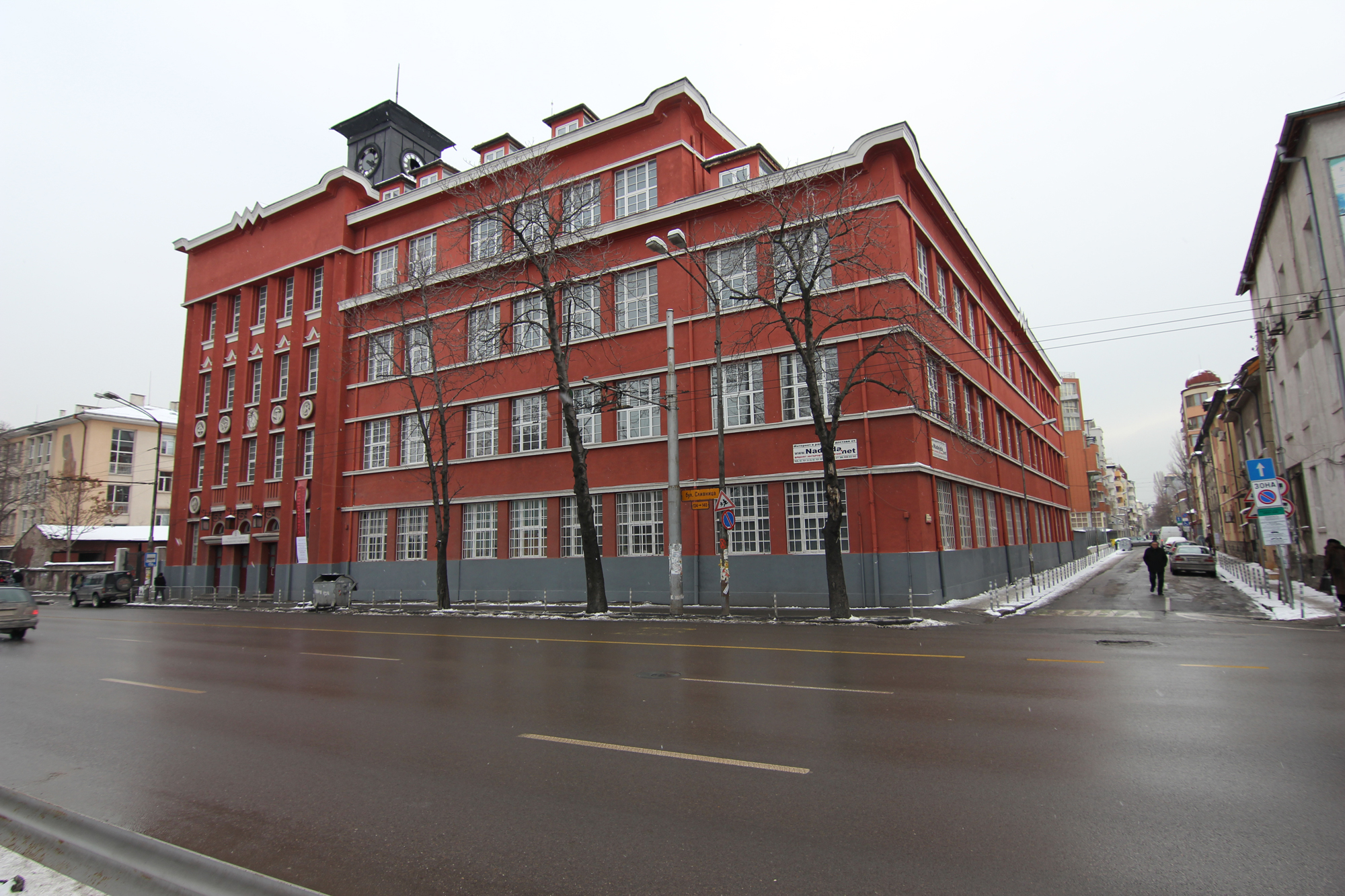 National School for Applied Art St. Luca, Sofia, Bulgaria